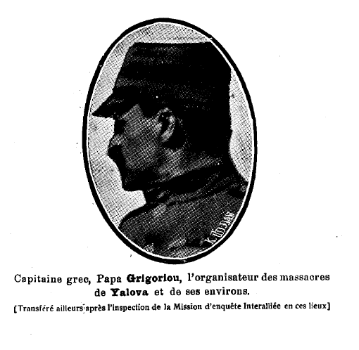 Date: 1921.